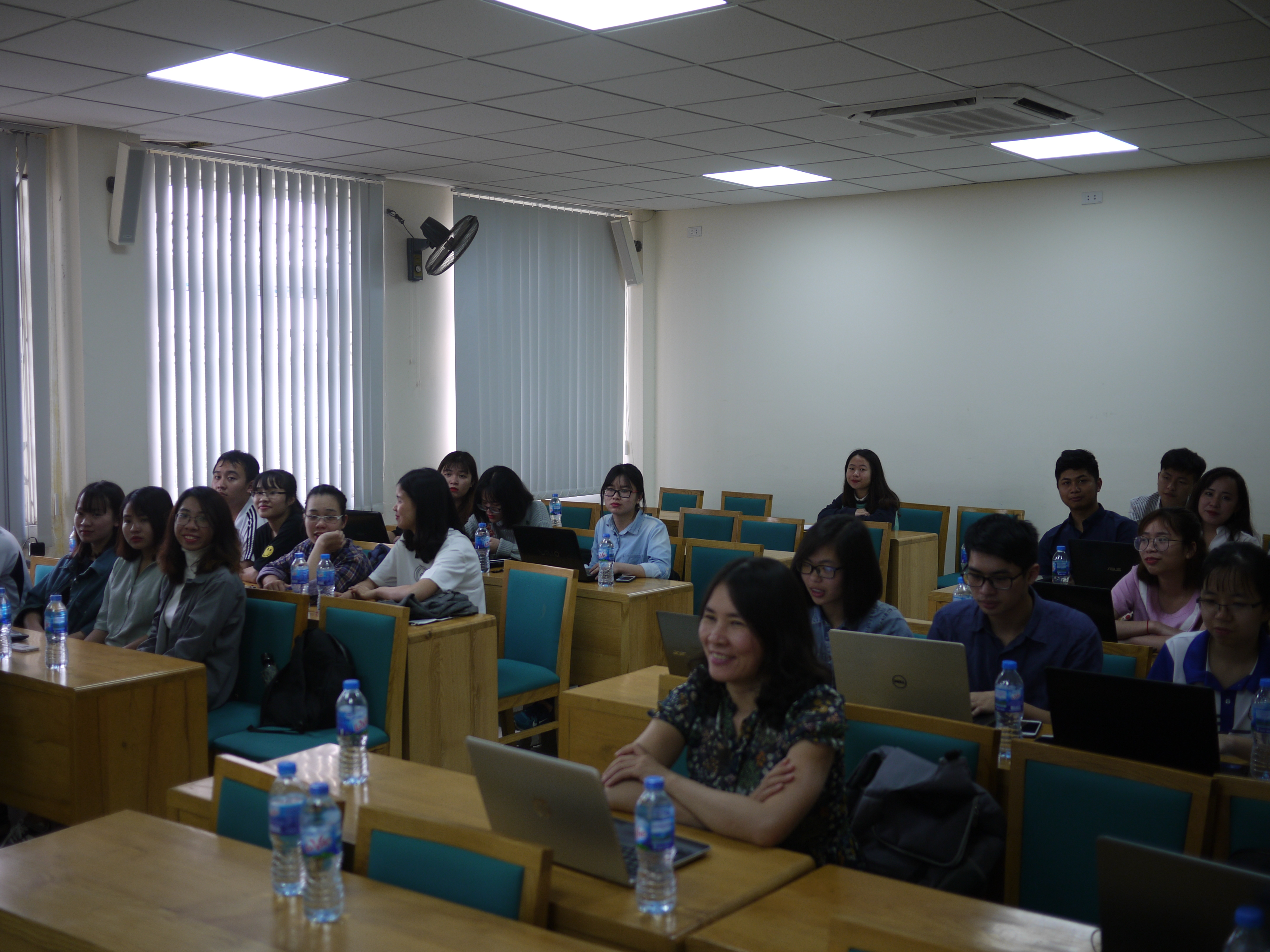 Wikipedia workshop at University of Economics and Business, Vietnam National University on Thursday, 22 March 2018